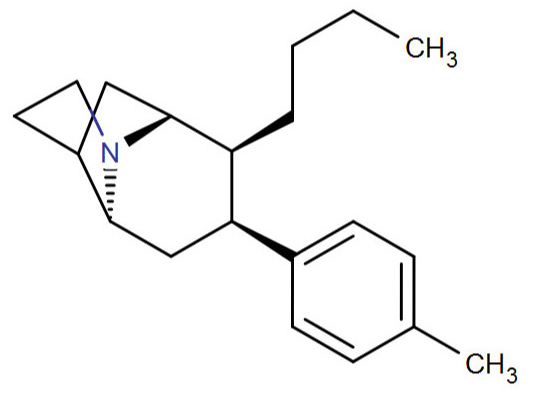 Back-bridged phenyltropane #42a